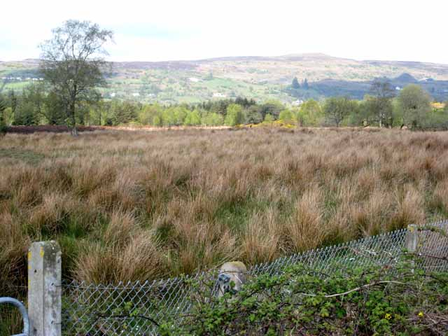 Marshy field near Mountallen Bridge A very poor quality field near the southern end of Lough Allen; at the northernmost end of the extensive lowlands of central Ireland. Kilronan Mountain G9014 in the distance.